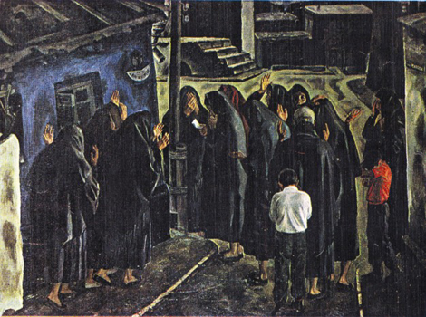 A painting "Mothers’ Black Shawls" acquired by the State Tretyakov Gallery in 1978. Oil on canvas. 1,20x1,60m.